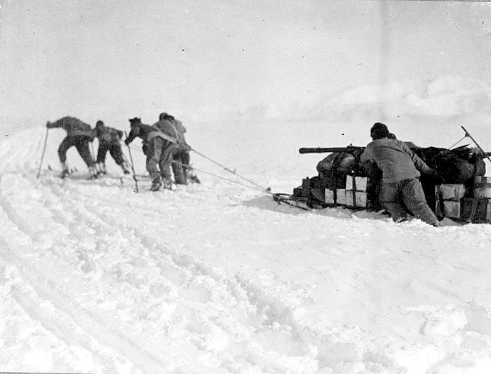 A man-hauling party on the south polar trip; Terra Nova Expedition (1911-1913), for identification refer to P2005/5/1287 in the picture library of the Scott Polar Research Institute